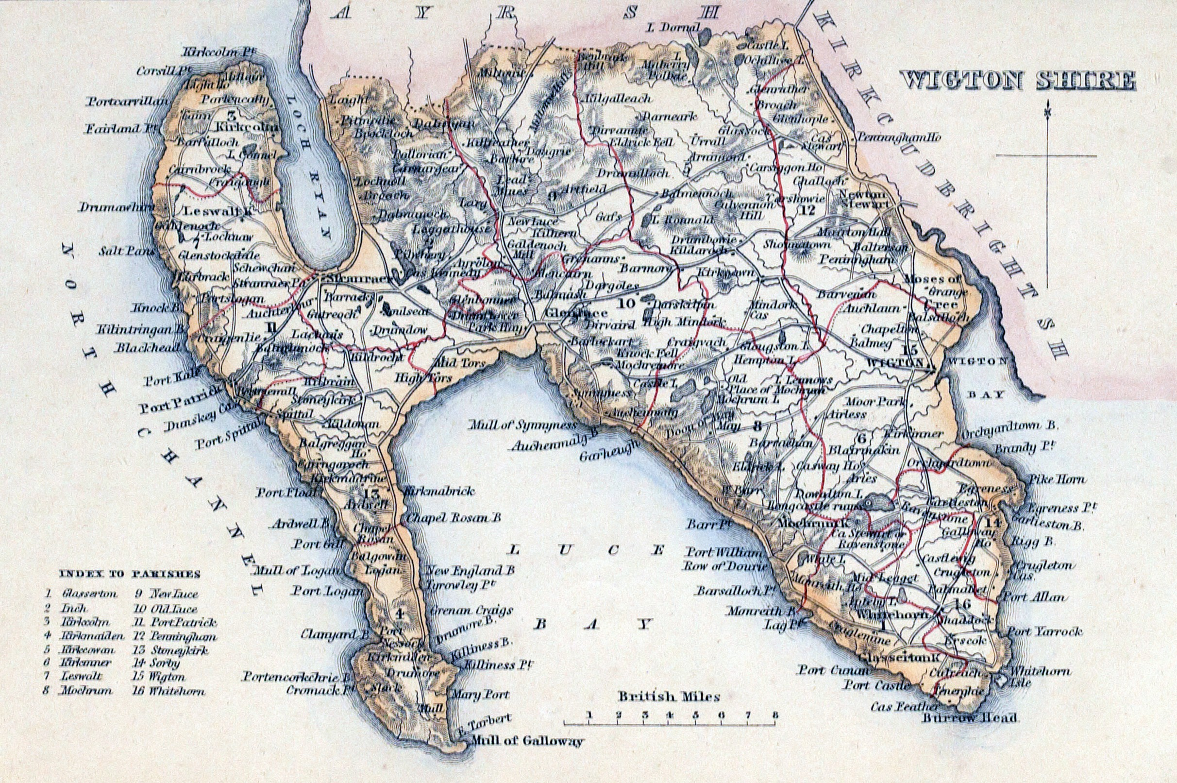 WIGTOWNSHIRE Civil Parish map. The Imperial gazetteer of Scotland. Vol.II. by Rev. John Marius Wilson.